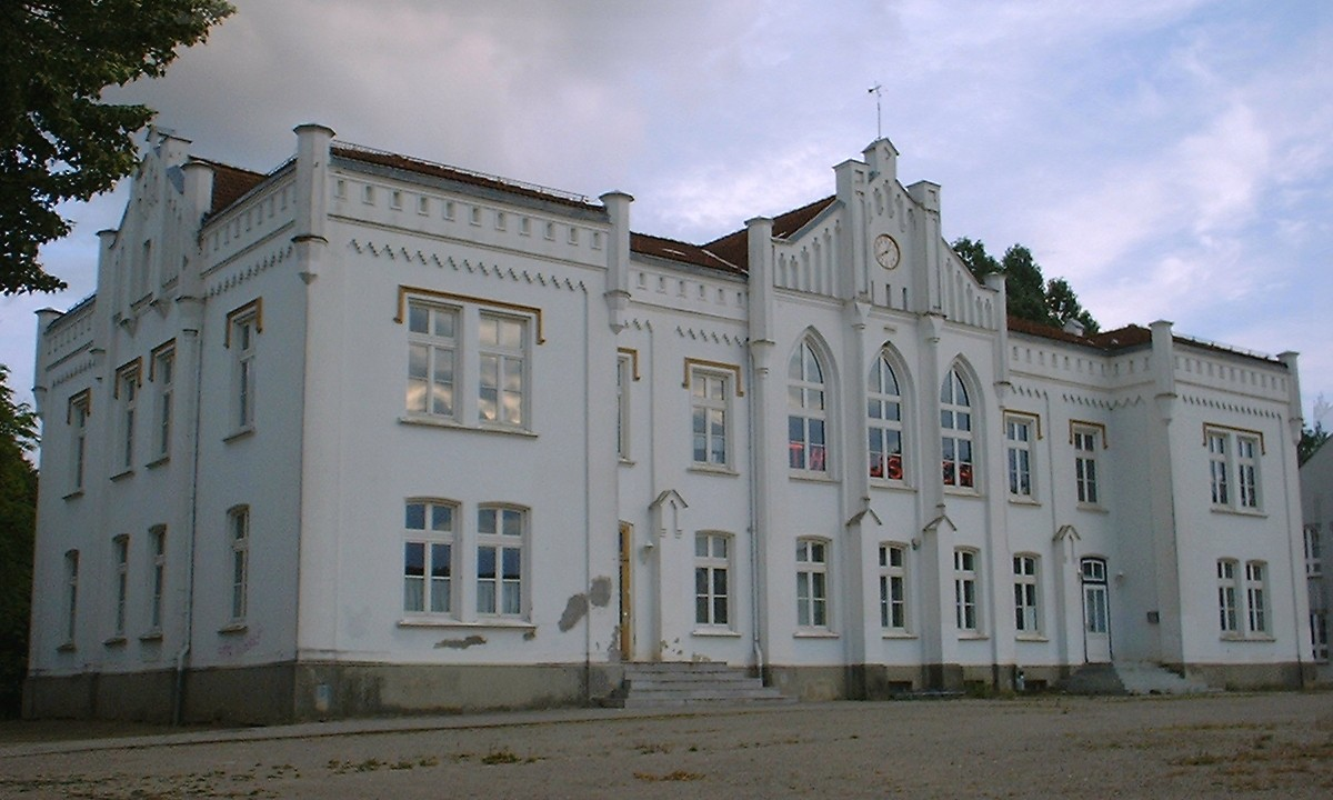 Theatre in Teterow in Mecklenburg-Western Pomerania, Germany